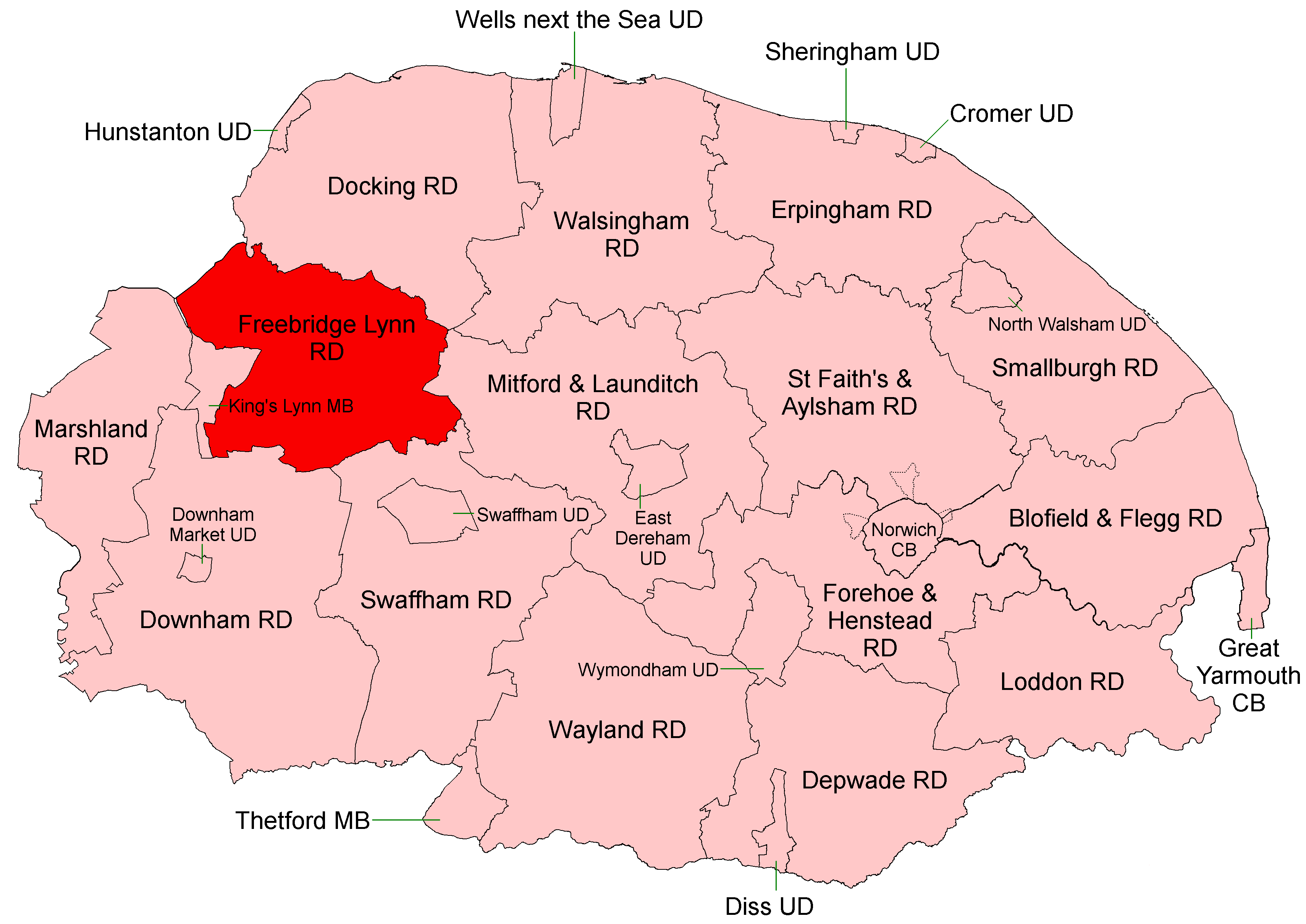 Freebridge Lynn Rural District, shown within the county of Norfolk, 1935. The boundaries shown were established in 1935 and generally persisted until reorganisation in 1974, except that Norwich CB was enlarged in 1951 and 1968, and Cromer UD in 1953, to reach the dotted boundaries. Some sandbanks in the Wash, although technically parished, are not shown.